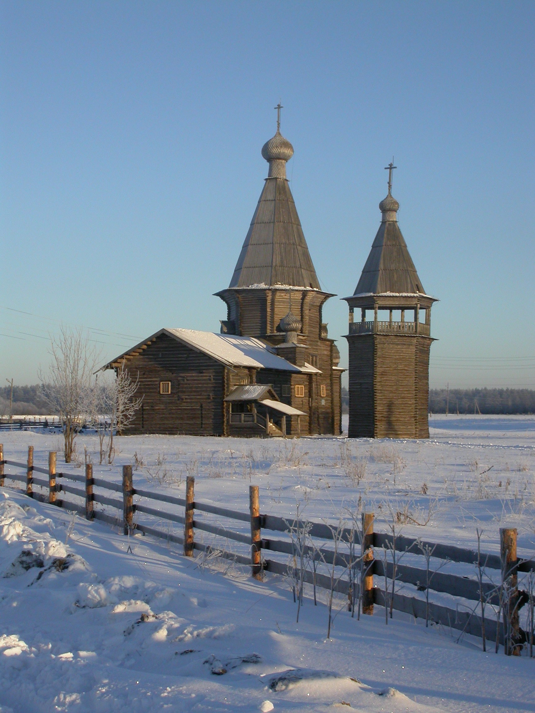 Wooden church of St John Chrysostom (1665) with bell tower in Kiprovo (formerly Saunino), Arkhangelsk Oblast, Russia